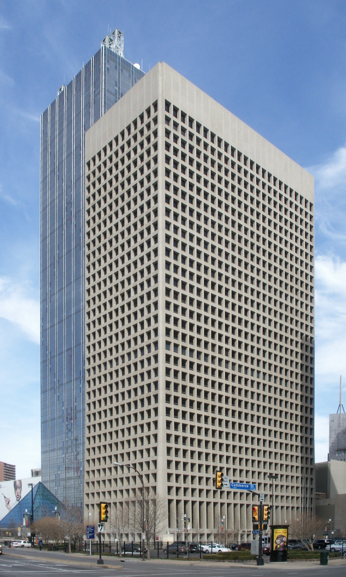 One Main Place, Dallas, Texas (in the background: Renaissance Tower)